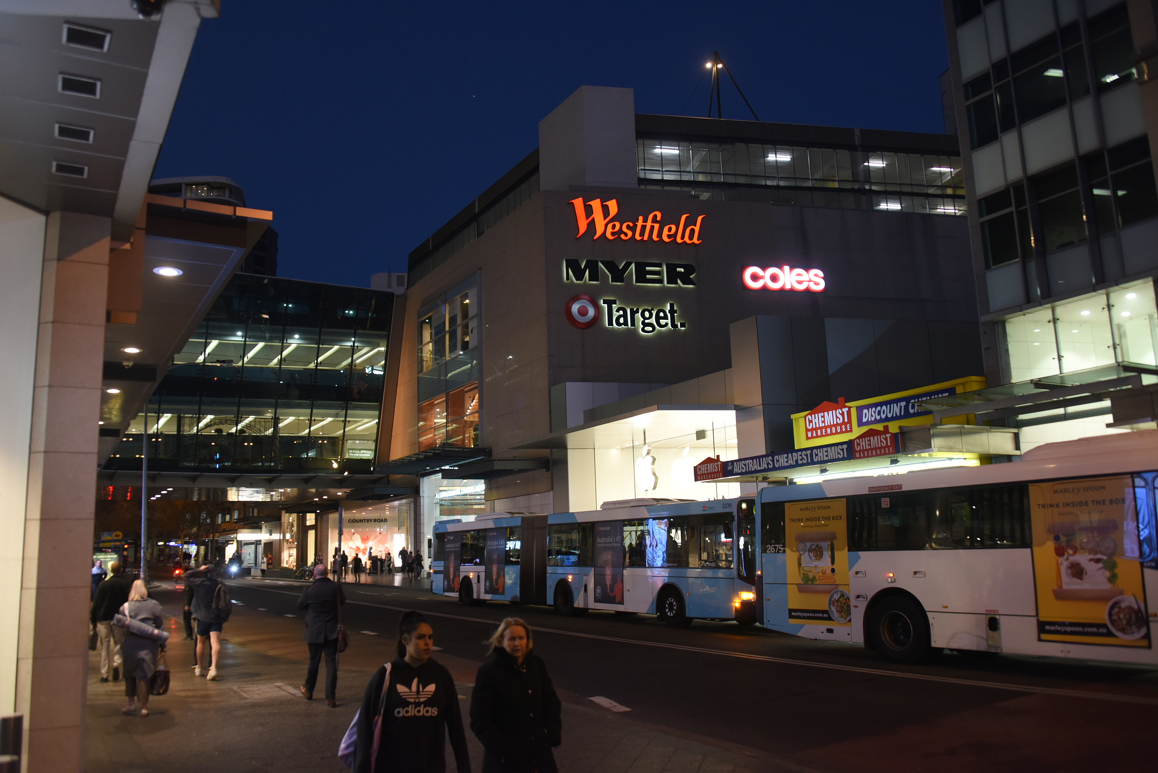 Bondi Junction, Sydney, at dusk